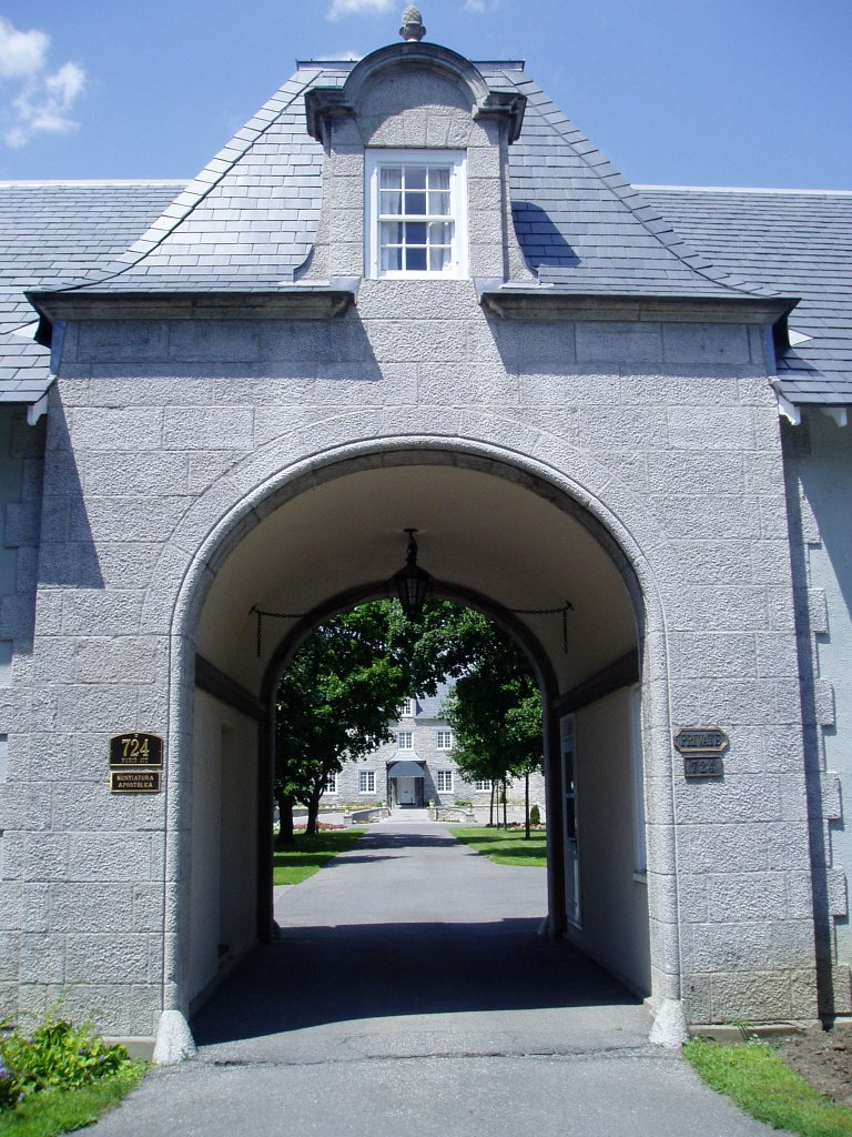 Apostolic nunciature in Ottawa, taken by SimonP in July 2005